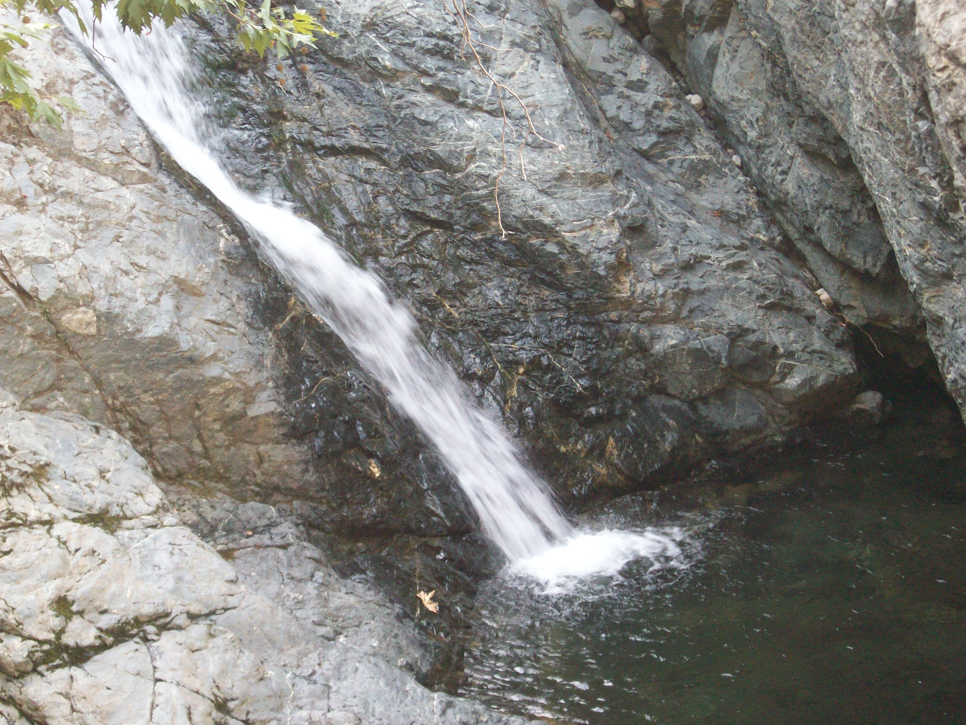 Waterfall and pond, characteristic of the island of Samothrace.